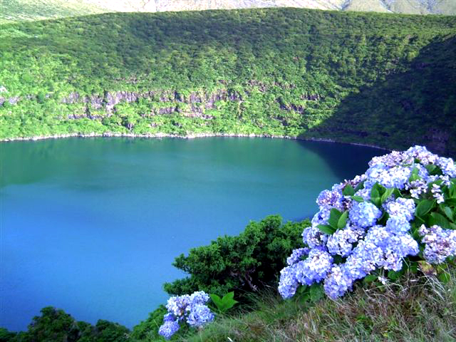 Lagoa Negra located in the interior of Lajes das Flores, island of Flores, Azores